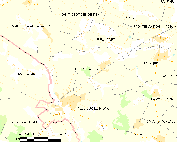 Map of French municipality Prin-Deyrançon